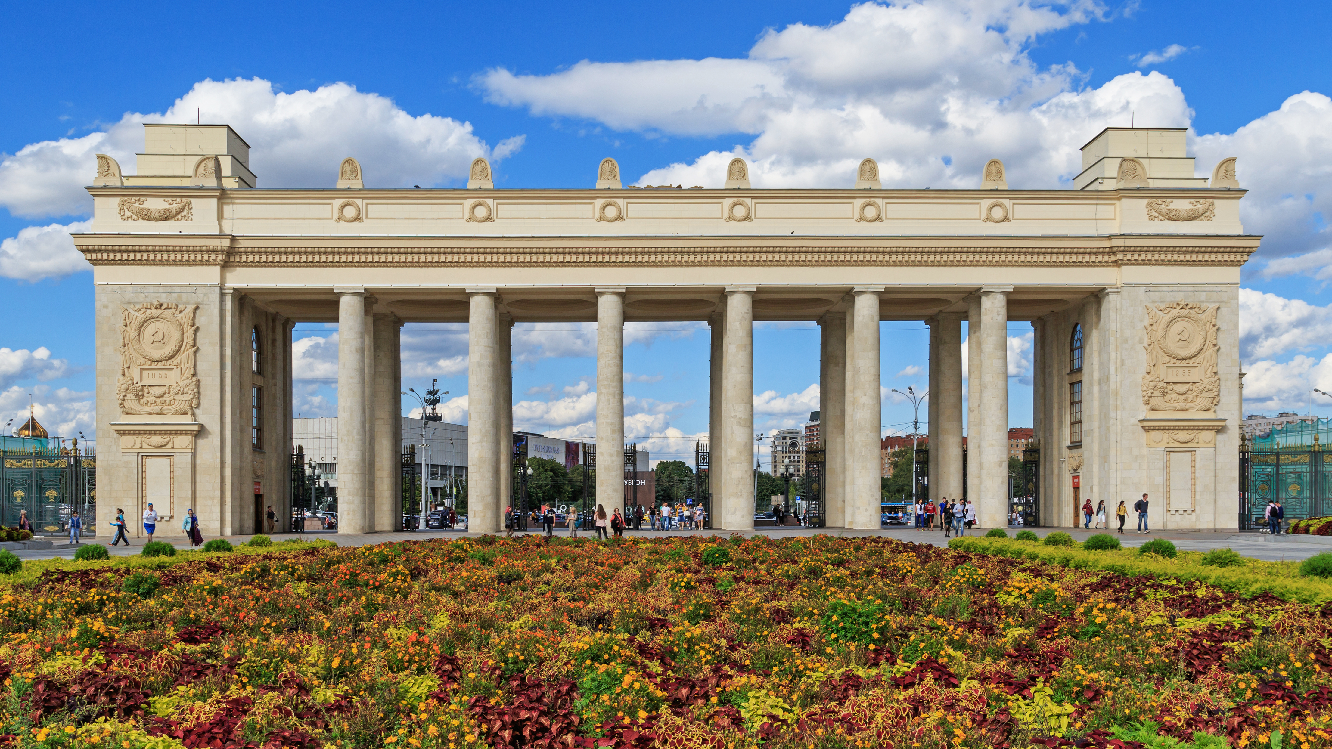 Colonnade of the Gorky Park main portal. Moscow, Russia.